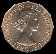 Threepence coin